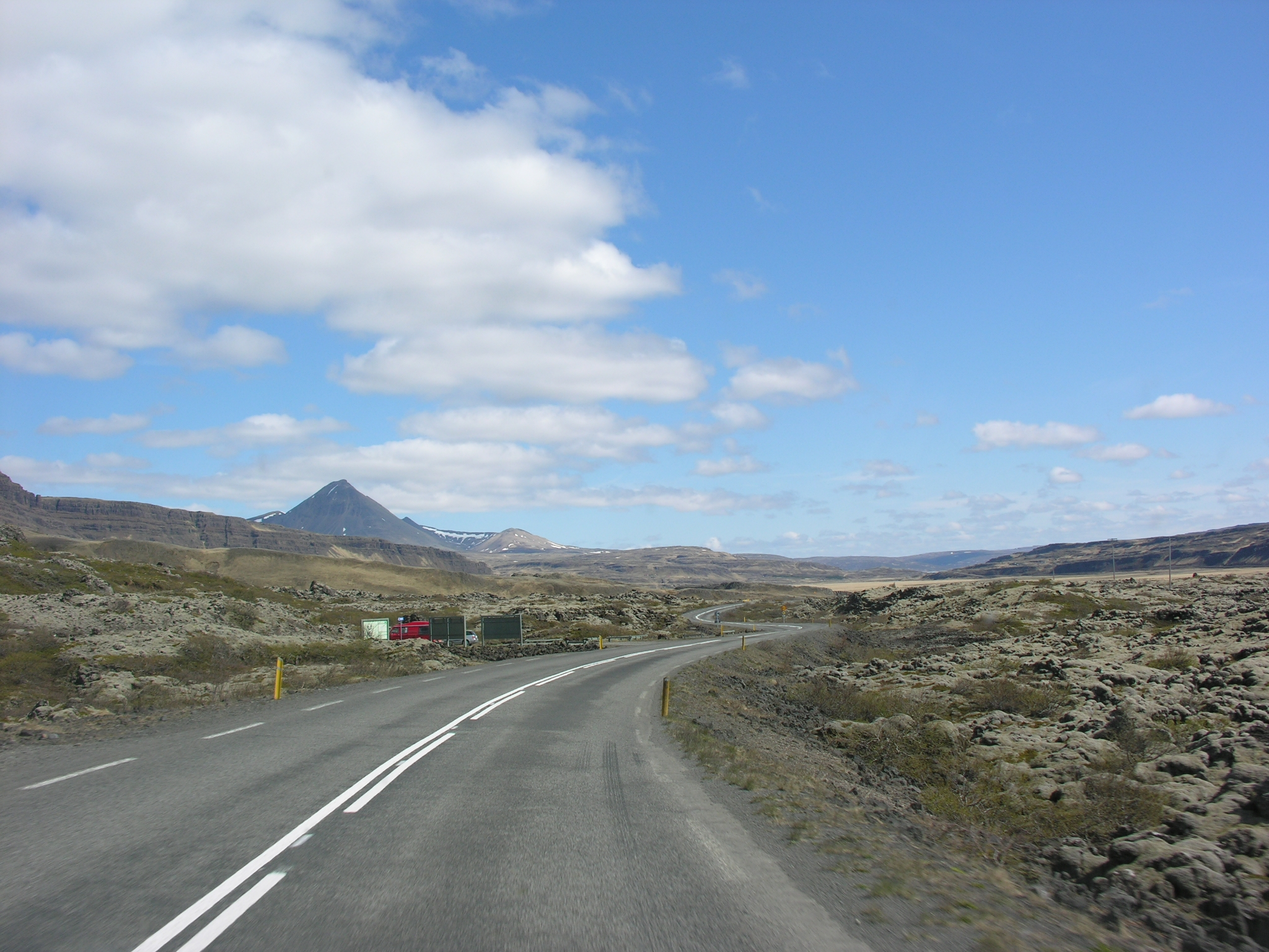 Iceland, views along road Road 1 in Iceland (Hringvegur). Picture is geocoded manually; if someone can contribute to the accuracy, please do so.